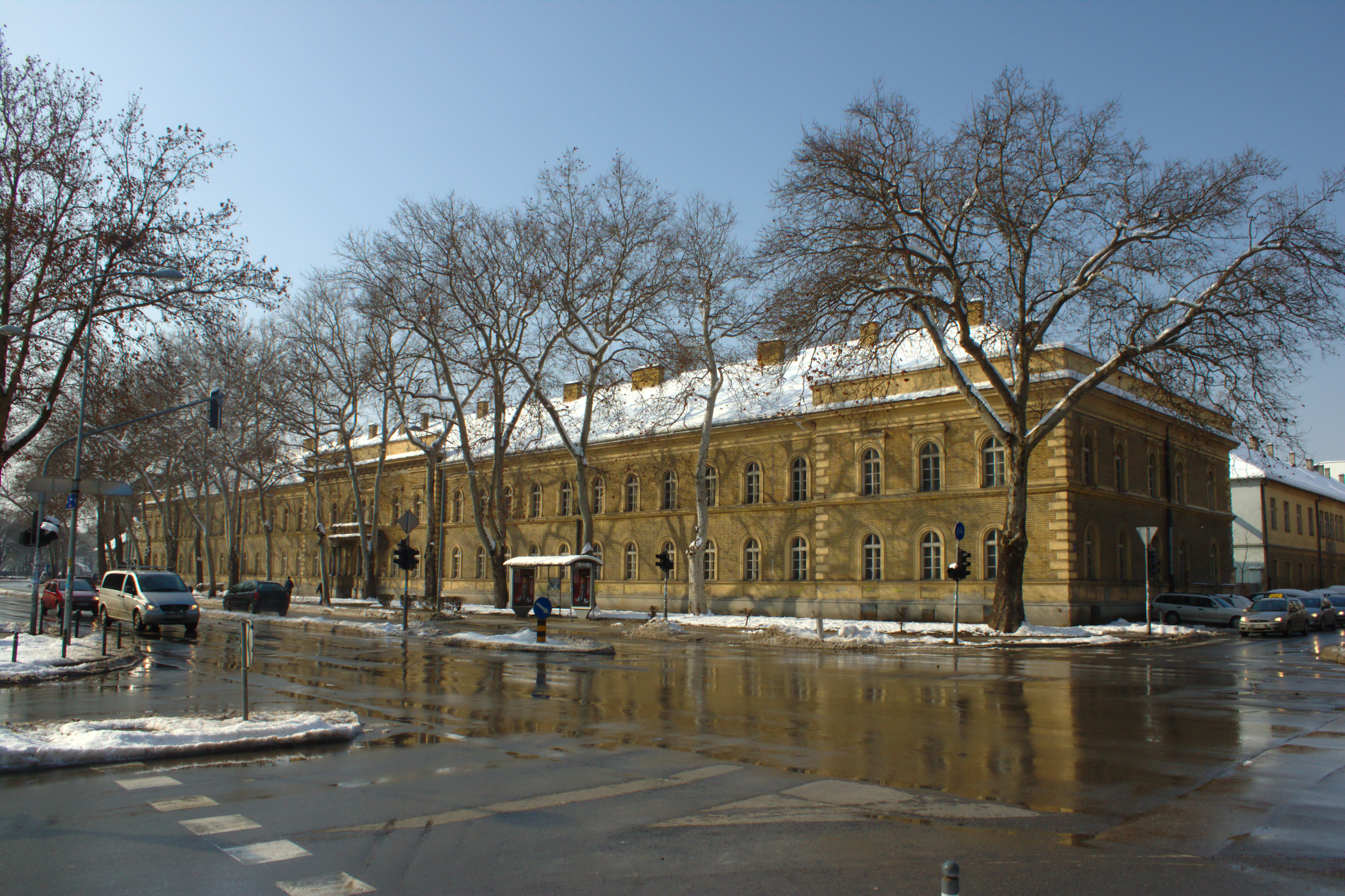 Futoška kasarna barracks in Novi Sad